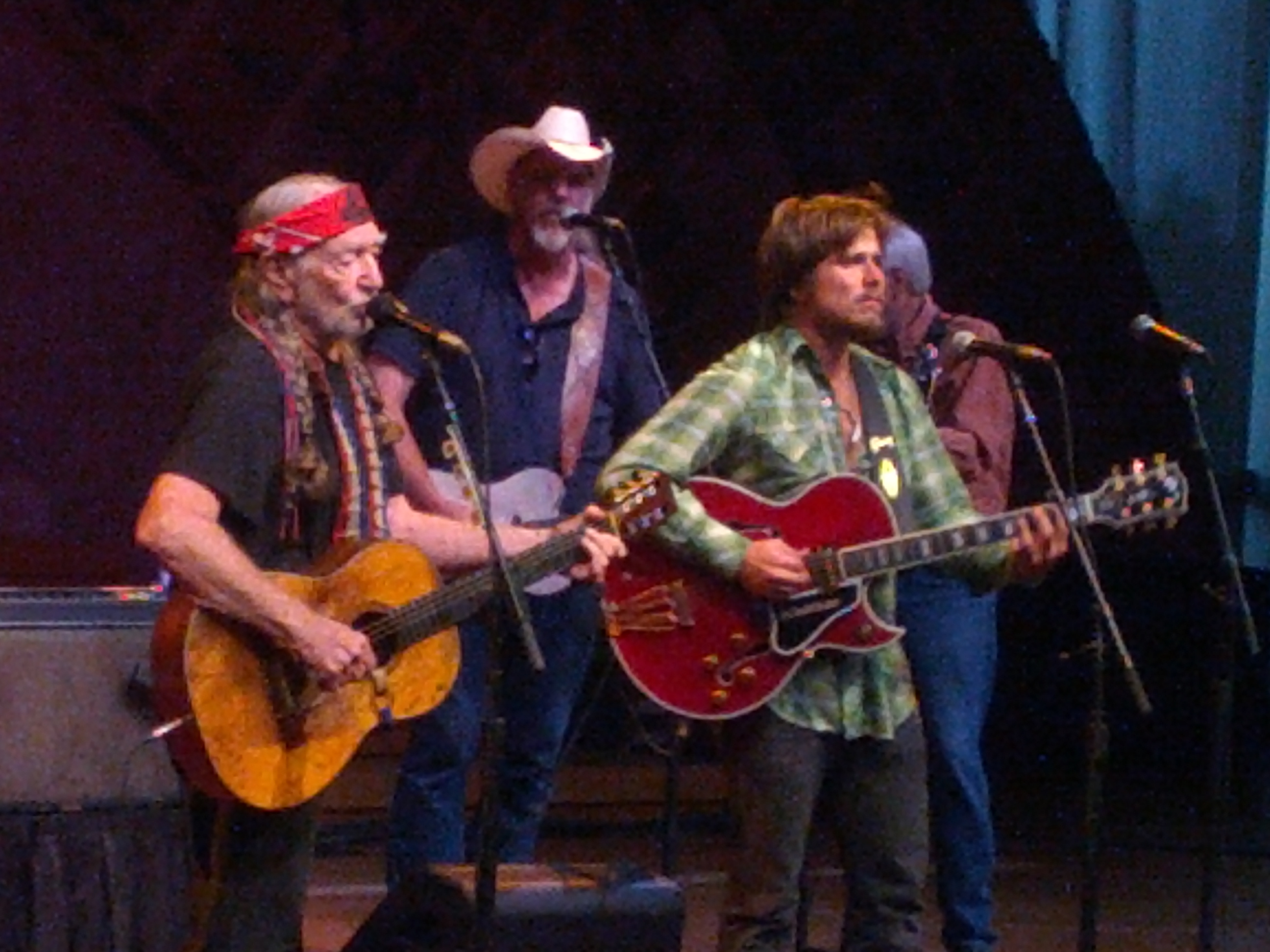 Willie Nelson and his son Lukas performing in concert.